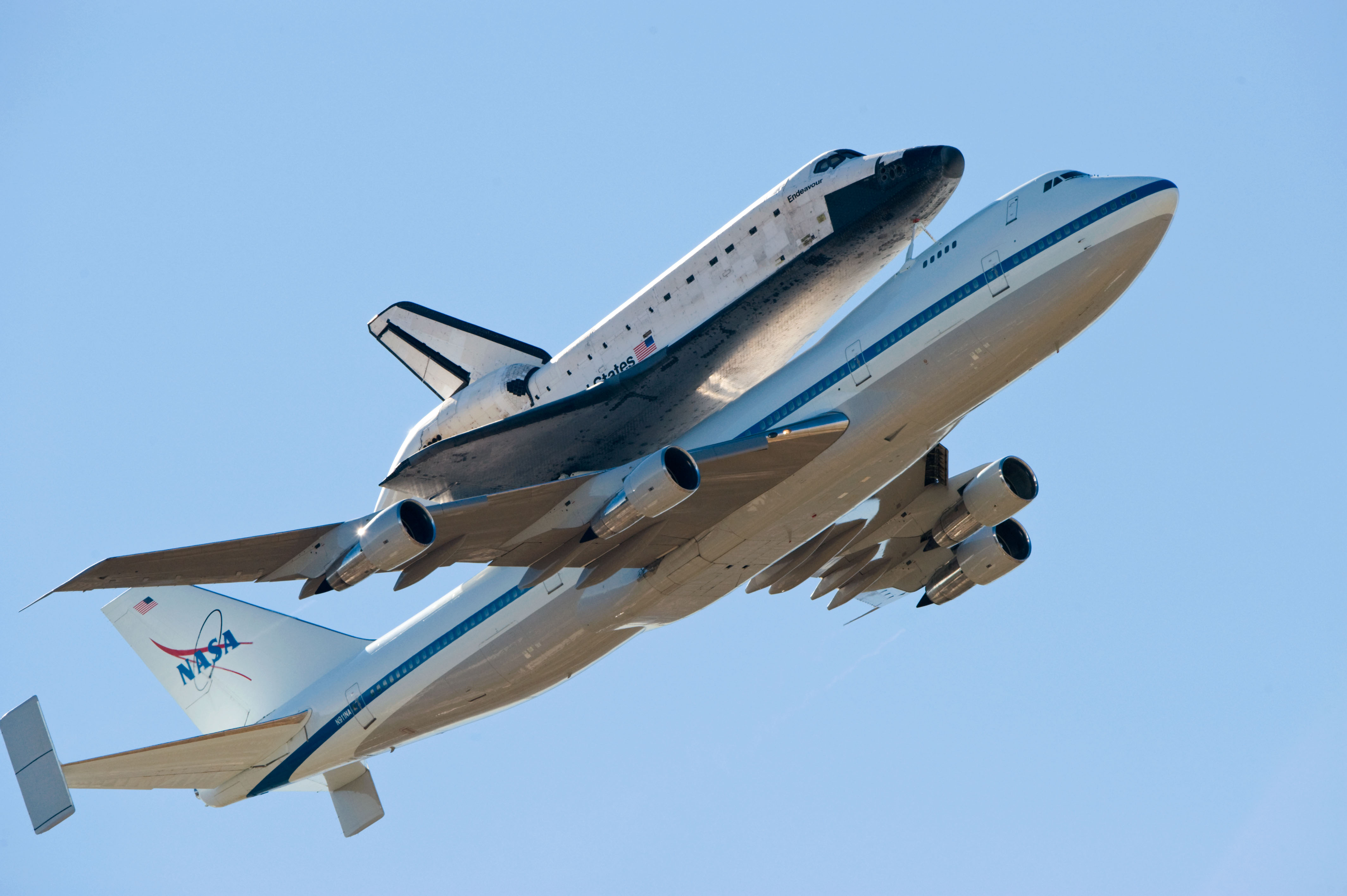 Space Shuttle Endeavour flies over the Clear Lake area and the Johnson Space Center after having spent the night at a stopover in Tarrant County, while mounted on a modified Boeing 747 Shuttle Carrier Aircraft. Endeavour landed in California on November 30, 2008, and was en route back to Florida after completing STS-126.